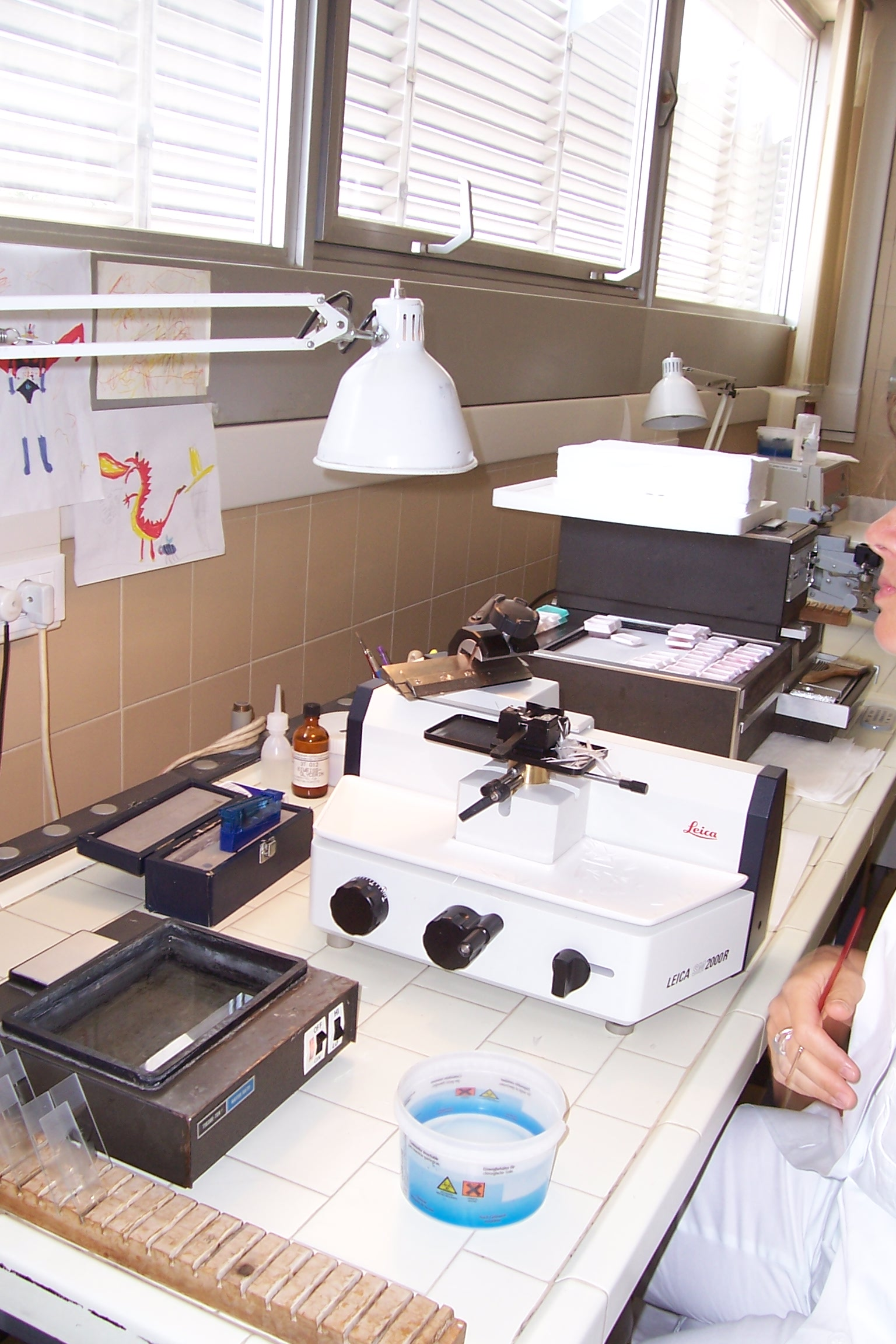 Lab. of Pathology - Monfalcone Hospital (Italy). How histological slides are prepared in practice. A cutting station. Here sections ar cut from the paraffine block.